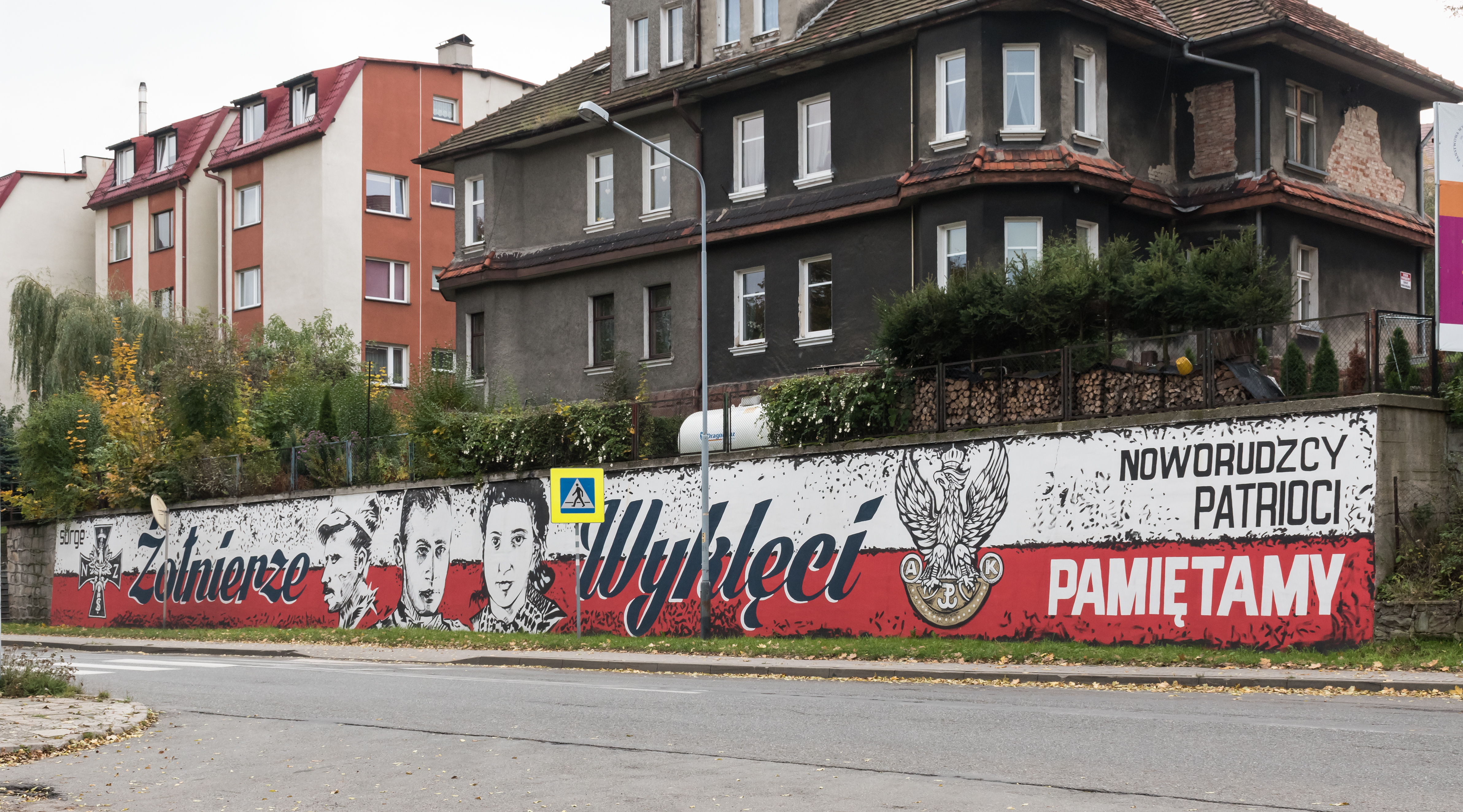 Mural in Nowa Ruda